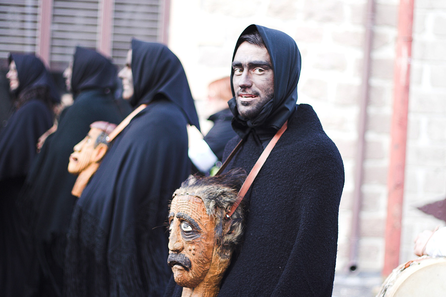 Carnival group of the village Lodine in the Province of Nuoro, Sardinia